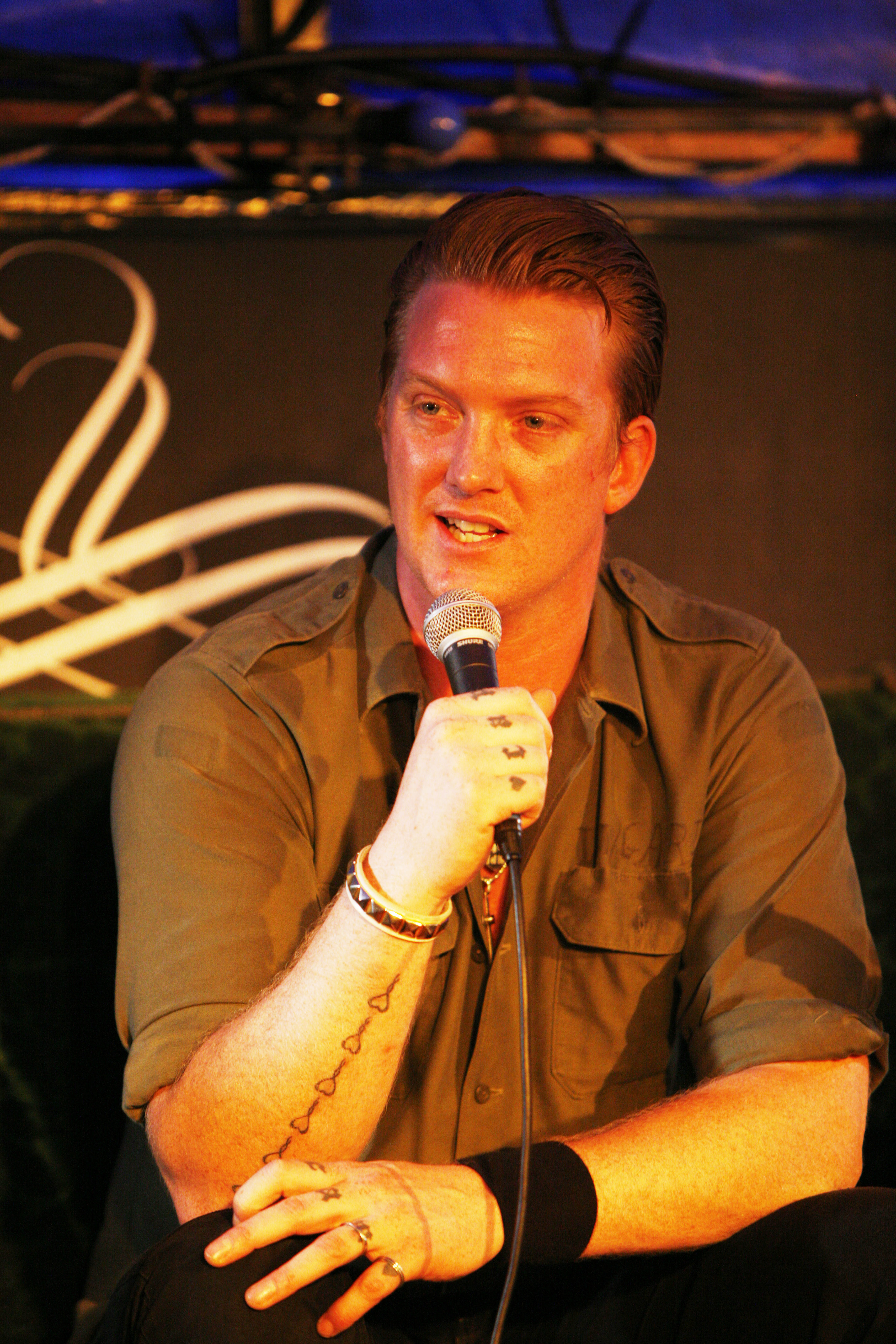 Josh Homme at the Eurockéennes of 2007